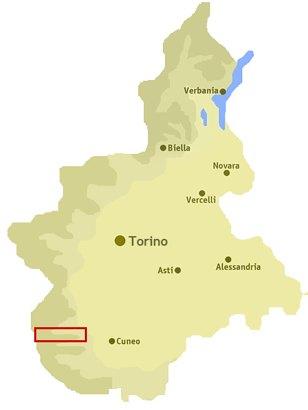 Position of the valley Valle Maira